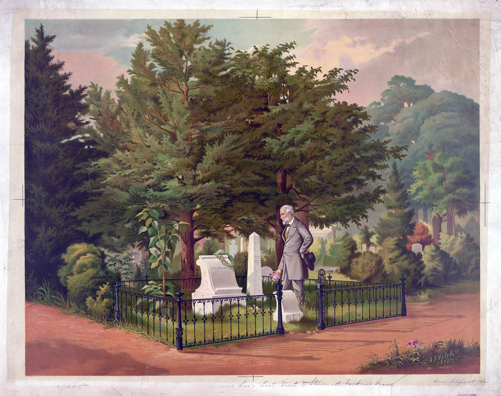 Library of Congress TITLE: General Lee's last visit to Stonewall Jackson's grave CALL NUMBER: PGA - Eckhardt, Louis--General Lee's last visit... (D size) [P&P] REPRODUCTION NUMBER: LC-DIG-pga-01133 (digital file from original print) LC-USZ62-68620 (b&w film copy neg.) RIGHTS INFORMATION: No known restrictions on publication. MEDIUM: 1 print. CREATED/PUBLISHED: [1872] NOTES: C11811 U.S. Copyright Office. This record contains unverified data from PGA shelflist card. Associated name on shelflist card: Eckhardt, Louis. REPOSITORY: Library of Congress Prints and Photographs Division Washington, D.C. 20540 USA DIGITAL ID: (digital file from original print) pga 01133 (b&w film copy neg.) cph 3b16078 CONTROL #: 2003666793